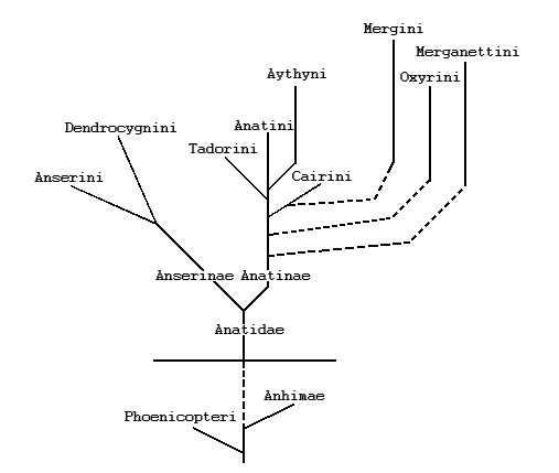 Diagram of theoretical relationships of the subfamilies and tribes of the Anatidae (Delacour, Mayr 1945)